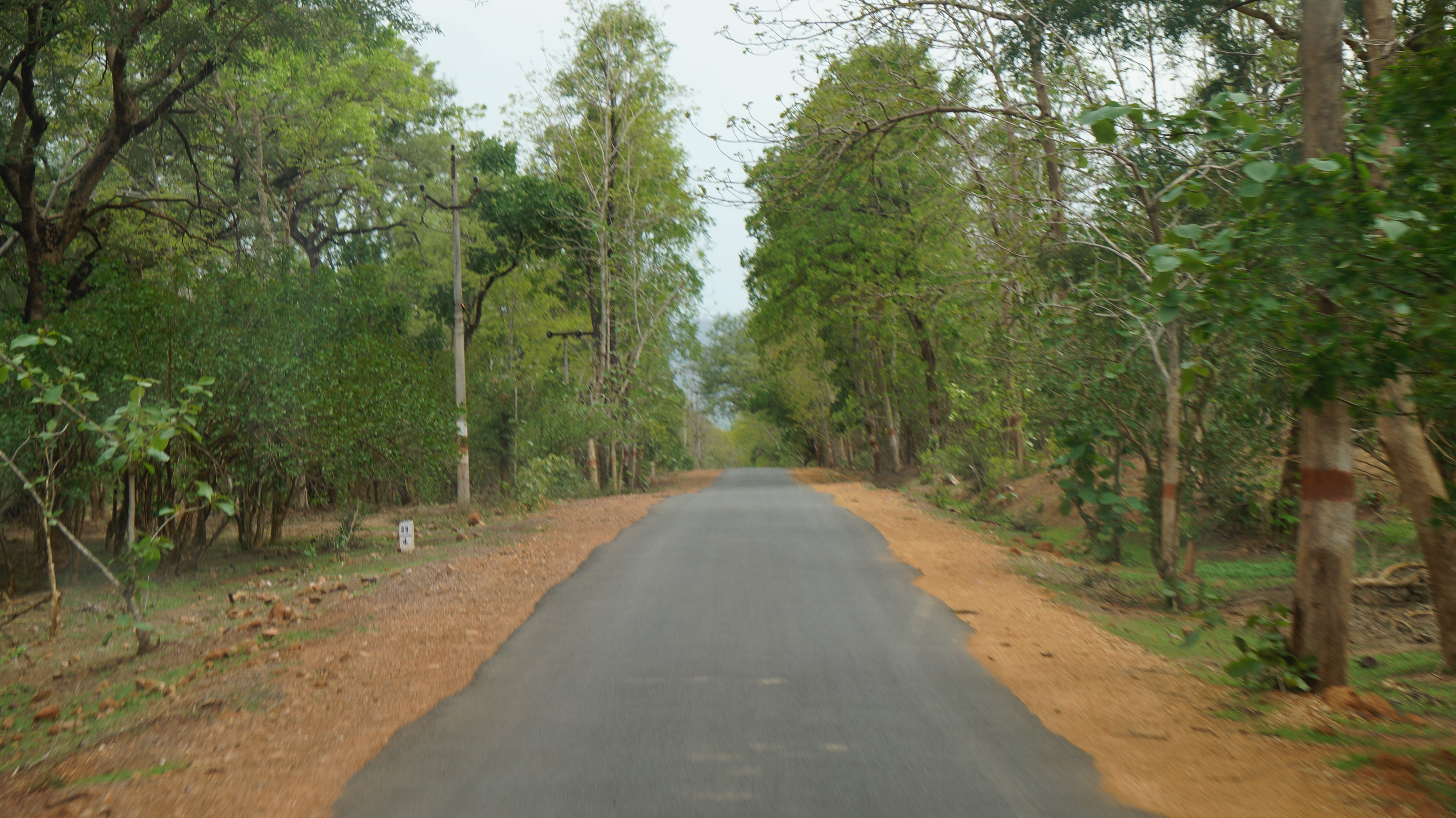 Achanakmar Tiger Reserve Bilaspur Chhattisgarh